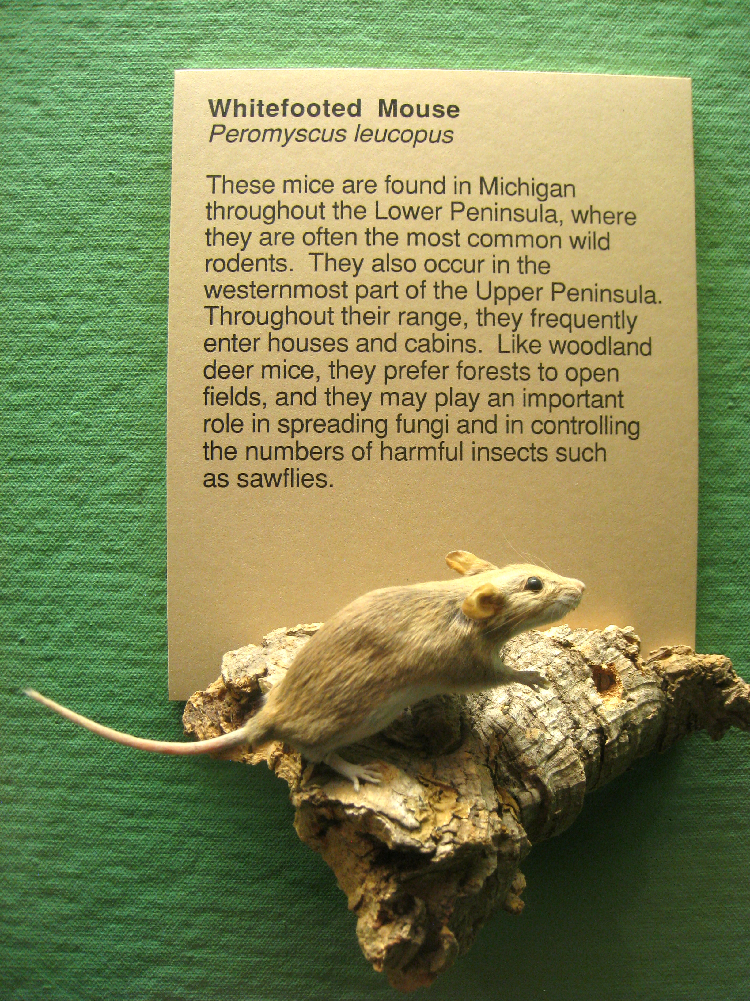 Peromyscus leucopus. Exhibit Museum of Natural History, University of Michigan, 1109 Geddes Avenue, Ann Arbor, Michigan, USA.